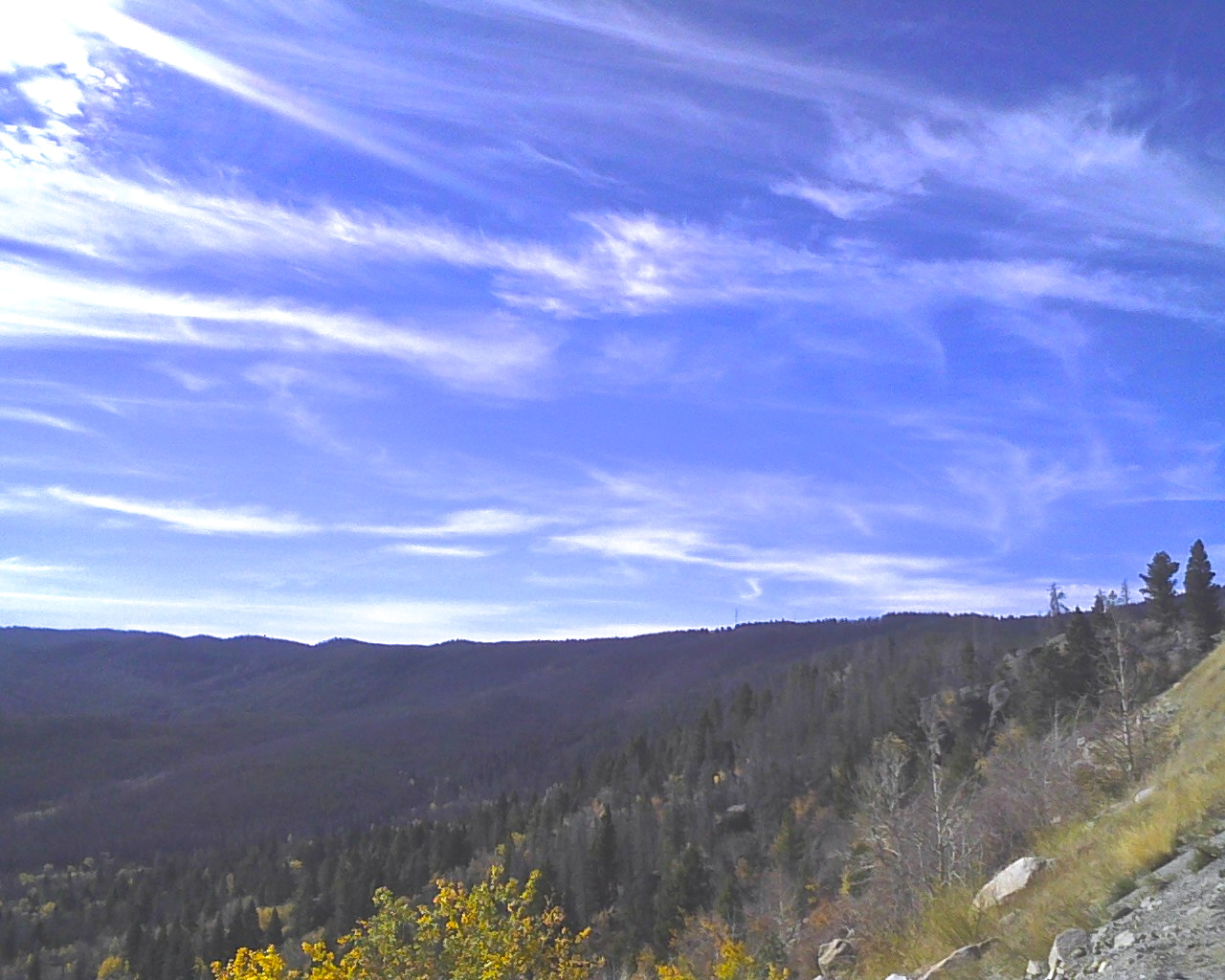 MacDonald Pass, Lewis and Clark County/Powell County, Montana; U.S. Highway 12, Helena National Forest. Image taken on east side of pass looking west to summit (tower visible in distance marks approximate location of the pass)